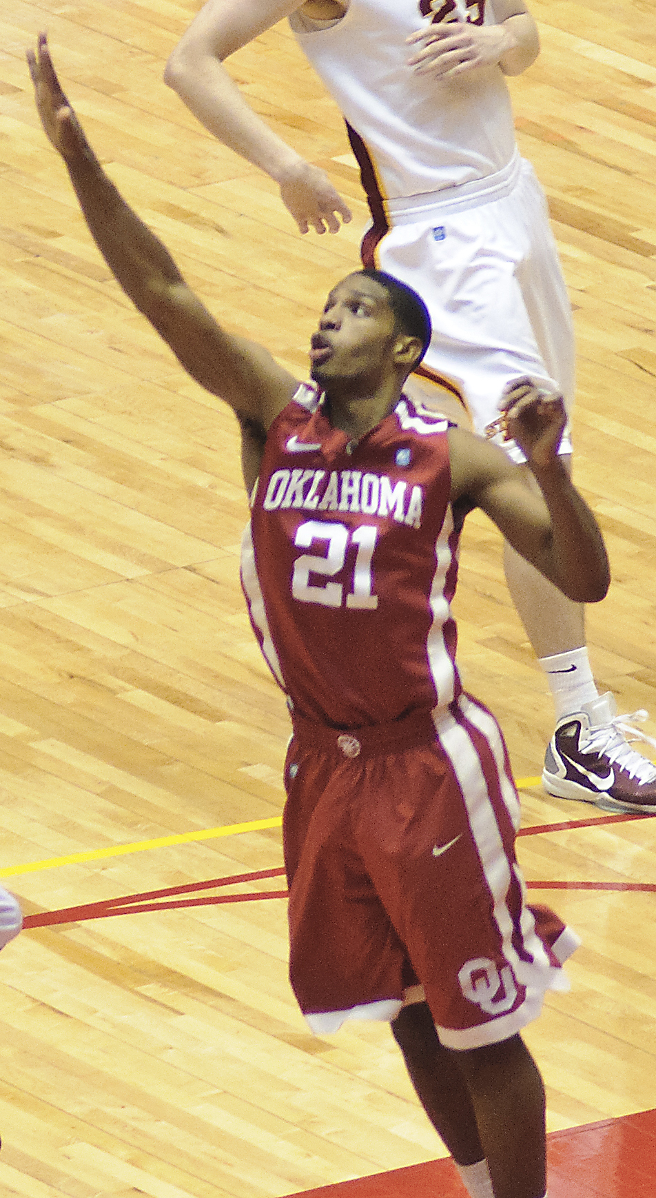 Oklahoma's Cameron Clark attempts to block a shot by Iowa State's Melvin Ejim in Hilton Coliseum on January 29, 2011.